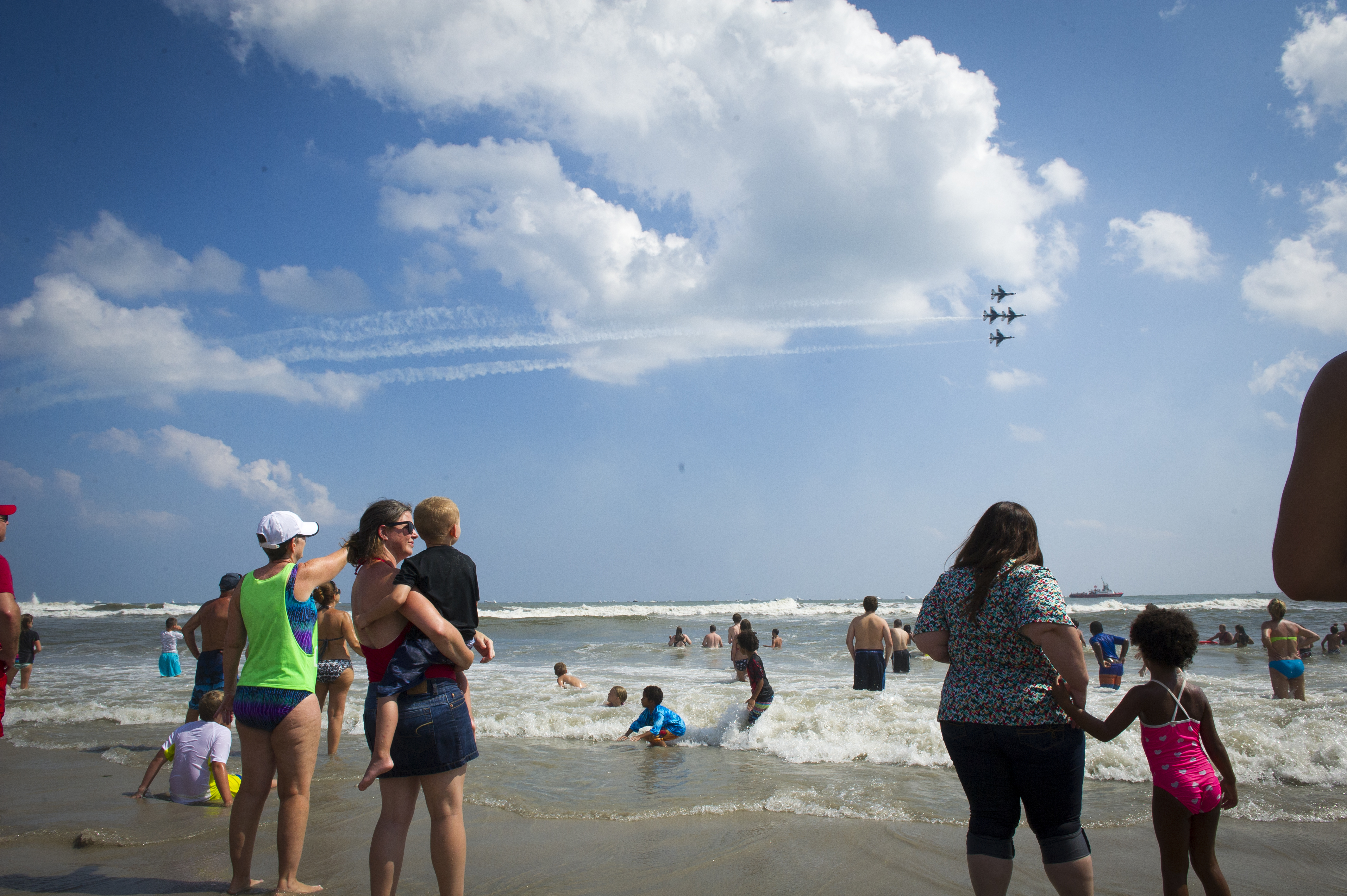 The Thunderbirds Diamond Formation pilots perform the Trail to Diamond Bottom Up Pass during the Thunder Over the Boardwalk Air Show in Atlantic City, N.J., Aug. 13, 2014. (U.S. Air Force photo/Tech. Sgt. Manuel J. Martinez)